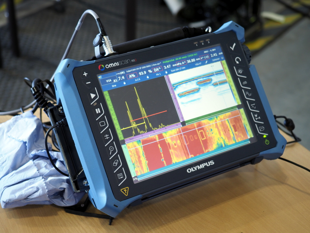 Ultrasonic Phased Array Flaw Detector Olympus OmniScan MX2, Fassberg 2019